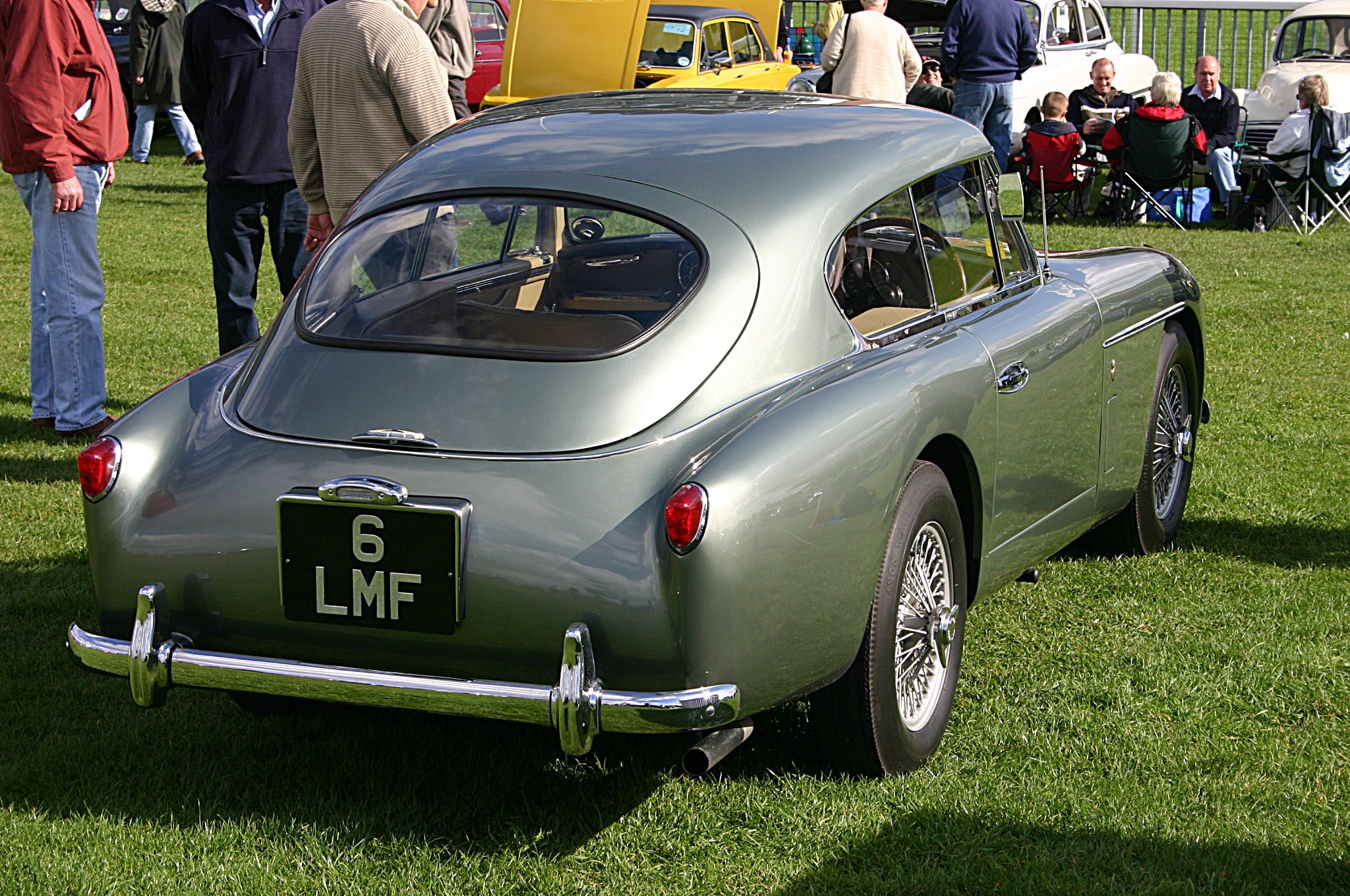 Most DB2/4 MkII cars received this 2+2 hatchback saloon bodywork. MkII cars have rear "wings" and a chrome strip running around the boot opening.